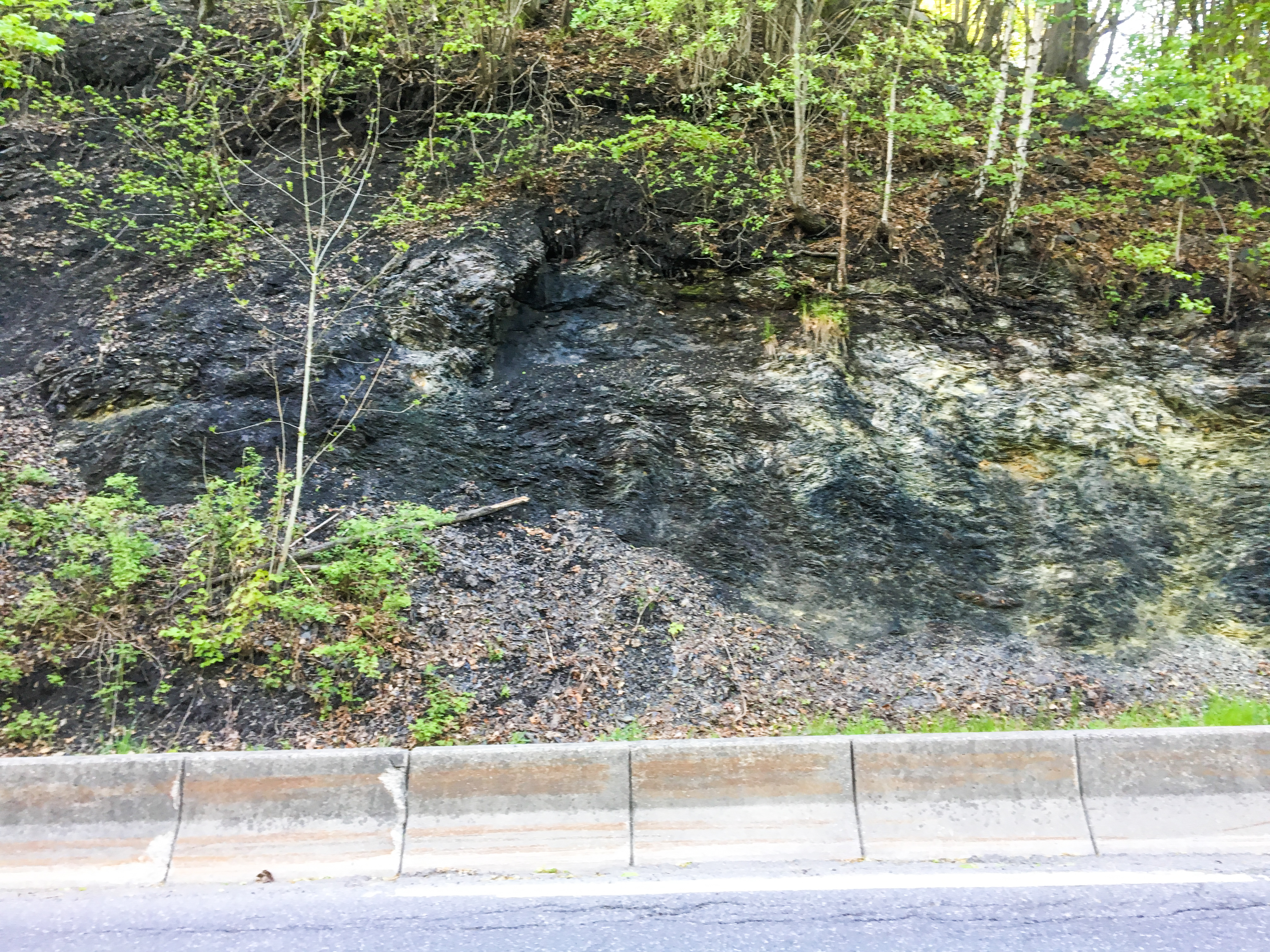 Søndre Nærsnes nature protection site, Nærsnes, Røyken, Norway